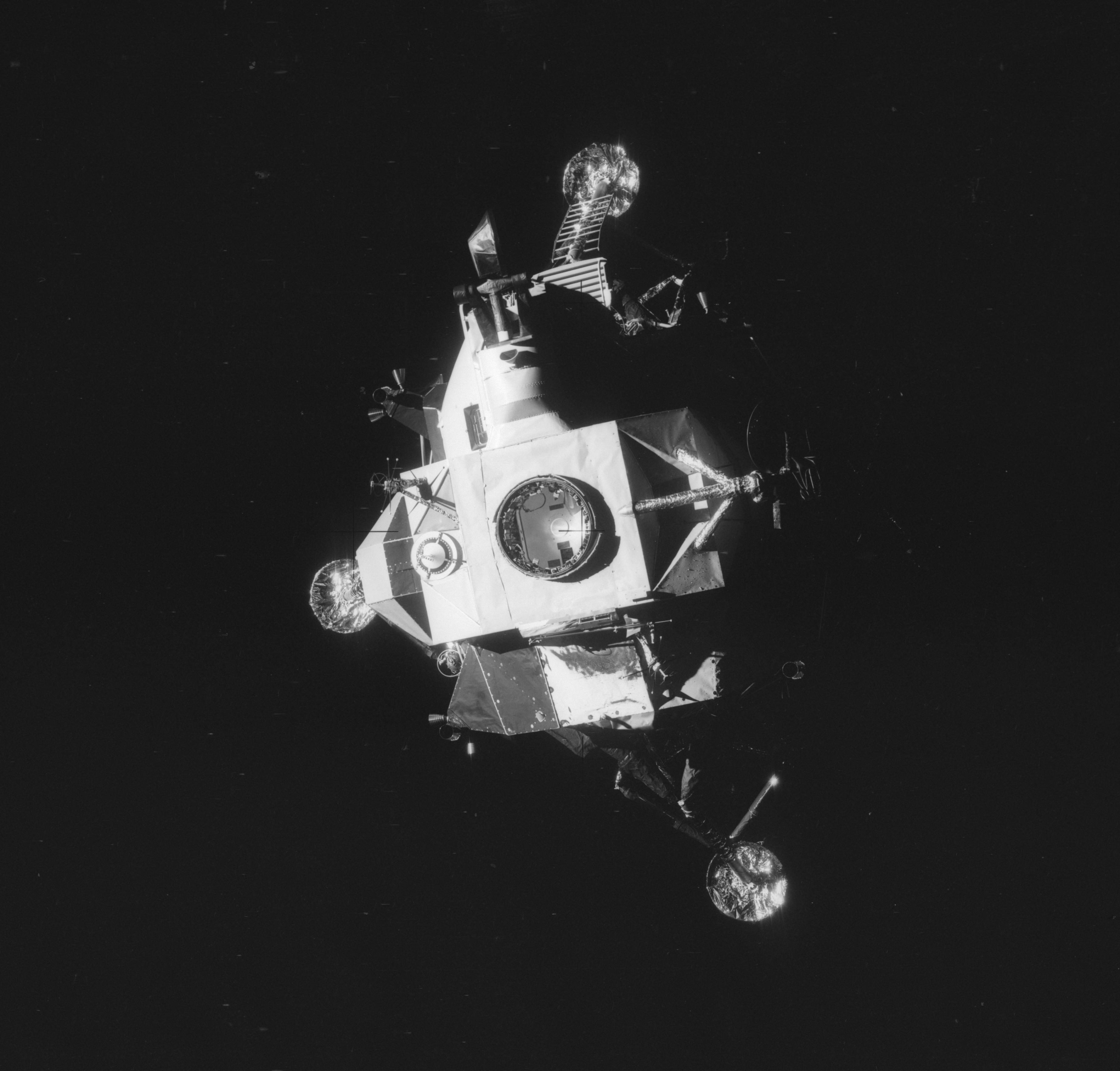 Apollo 13 Lunar Module LM-7 Aquarius as photographed from the Command Module Odyssey after undocking from it and prior to both modules reentering the Earth's atmosphere. There the Lunar Module would burn up, having completed its "lifeboat" service by sustaining the crew after an accident disabled the Service Module. Original caption; "Apollo 13 Hasselblad image from film magazine 59/R - Transfer from LM to CM; LM undocking prior to reentry"